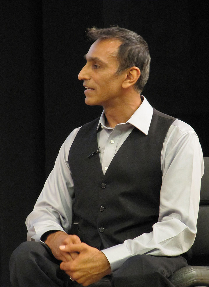 Portrait of Kuljit Bhamra MBE Hon DMus, British composer, record producer and musician